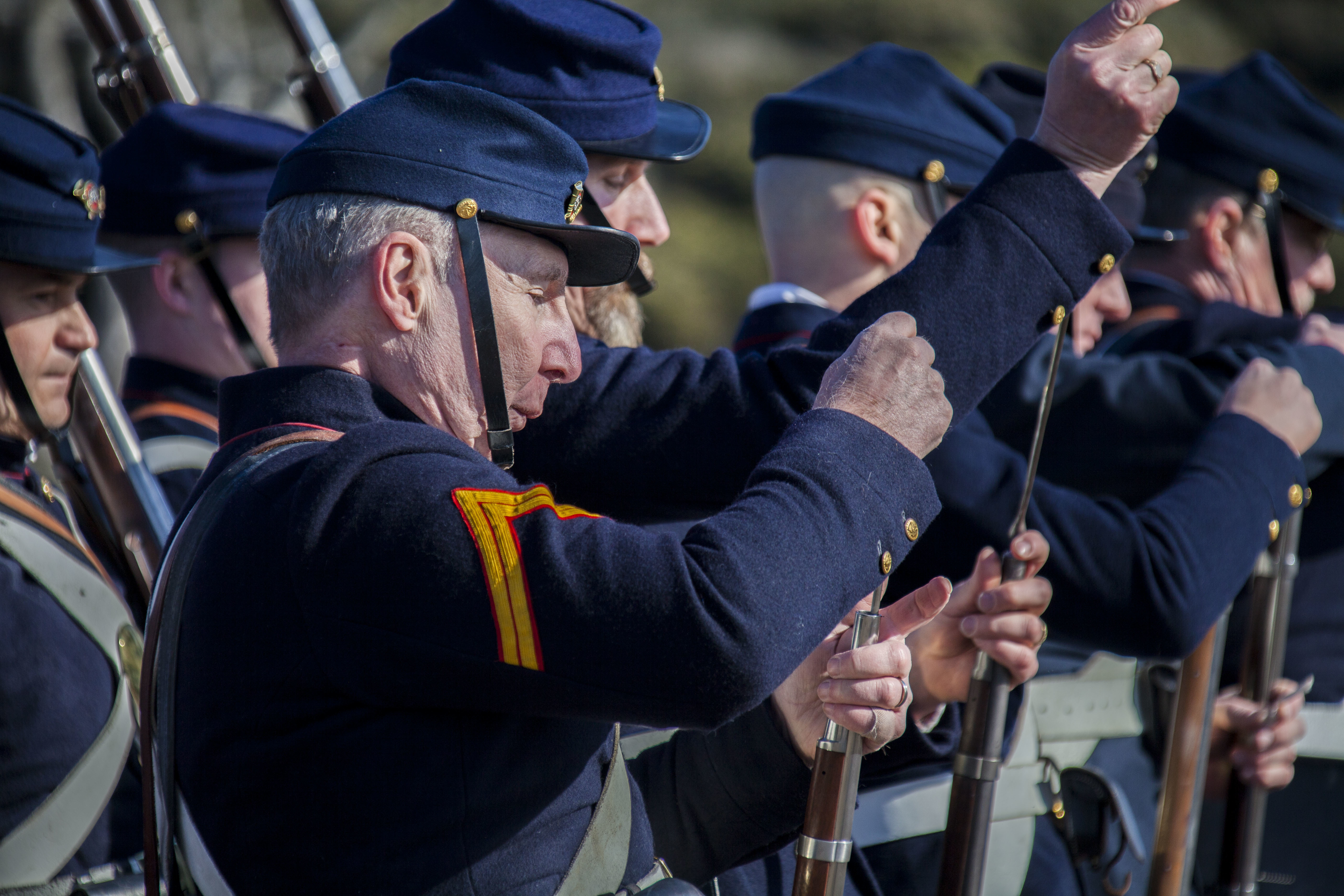 Mr. Bob Warner, a civilian interpreter with the Marine Corps Historical Company, reloads his Springfield Model 1861 Percussion Rifle during the 150th Anniversary of the Battle of Fort Fisher commemoration at Kure Beach, N.C., Jan. 17, 2015. The Marine Corps Historical Interpretive Team, composed of members of the Marine Corps Historical Company and Single Marine Program Marines, used battle walks, historical weapons demonstrations, and extensive exhibits to tell the story of Civil War Marines, showing the relevance and impact of the battle and its participants on today's Corps. (U.S. Marine Corps photo by Sgt. Christopher Q. Stone, MCI-East Combat Camera/Released)